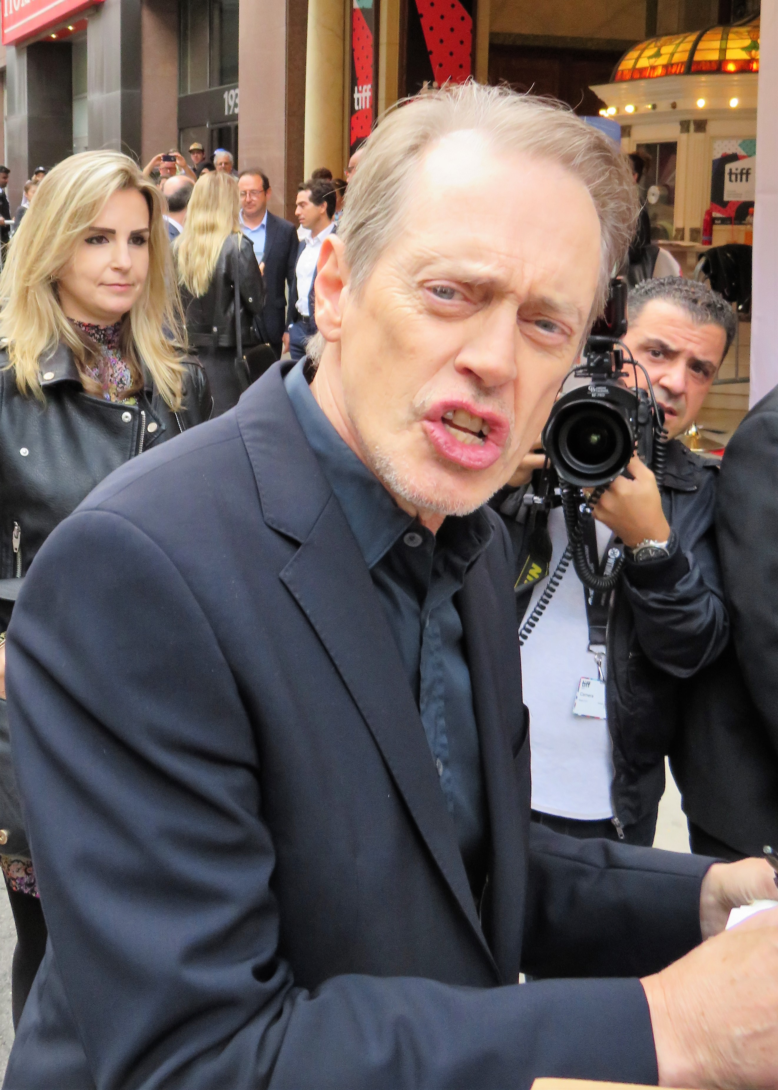 Steve Buscemi at the premiere of Death of Stalin, 2017 Toronto Film Festival